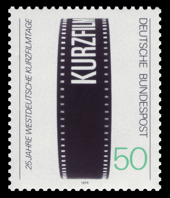 25 years of Western Germany filmlet festival